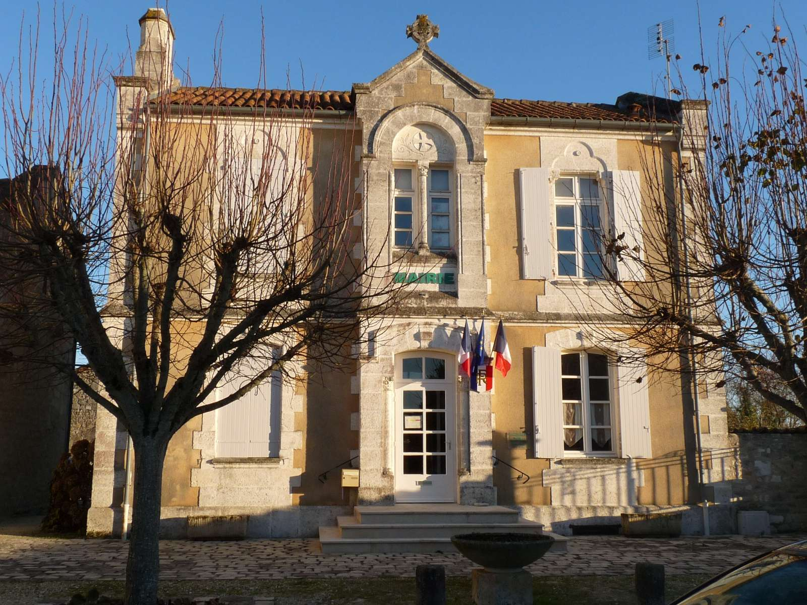 town hall